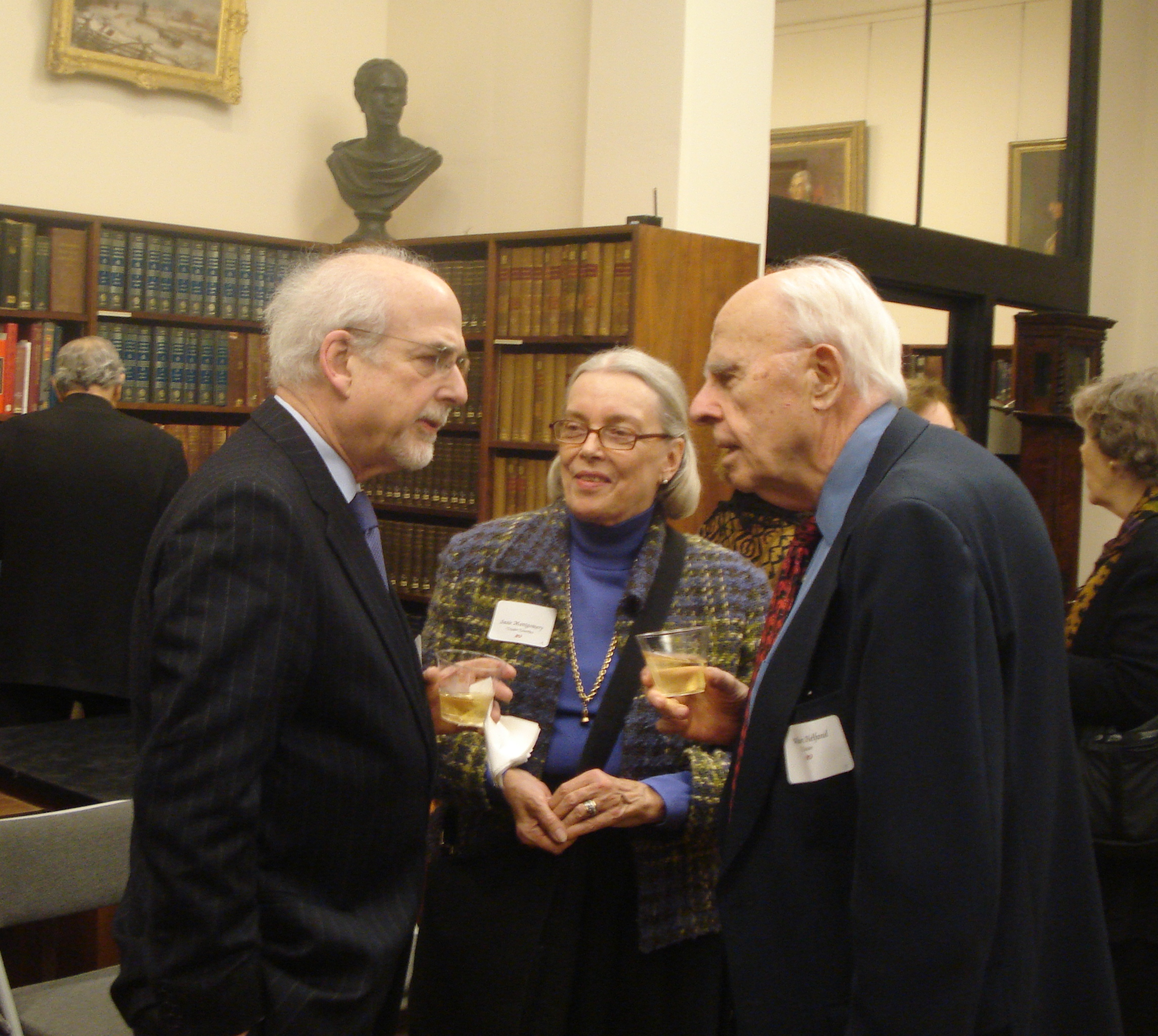 From Left to Right: Bruce Cole: President and CEO of the American Revolution Center Susie Montgomery: LCP Trustee Emeritus Bill Helfand: LCP Trustee